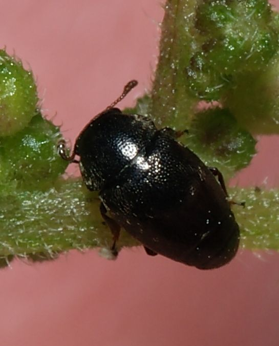 Brachypterus urticae on flowers of Urtica dioica, at "Königsforst" nature reserve in Cologne, Germany. The beetle is about 2mm long.